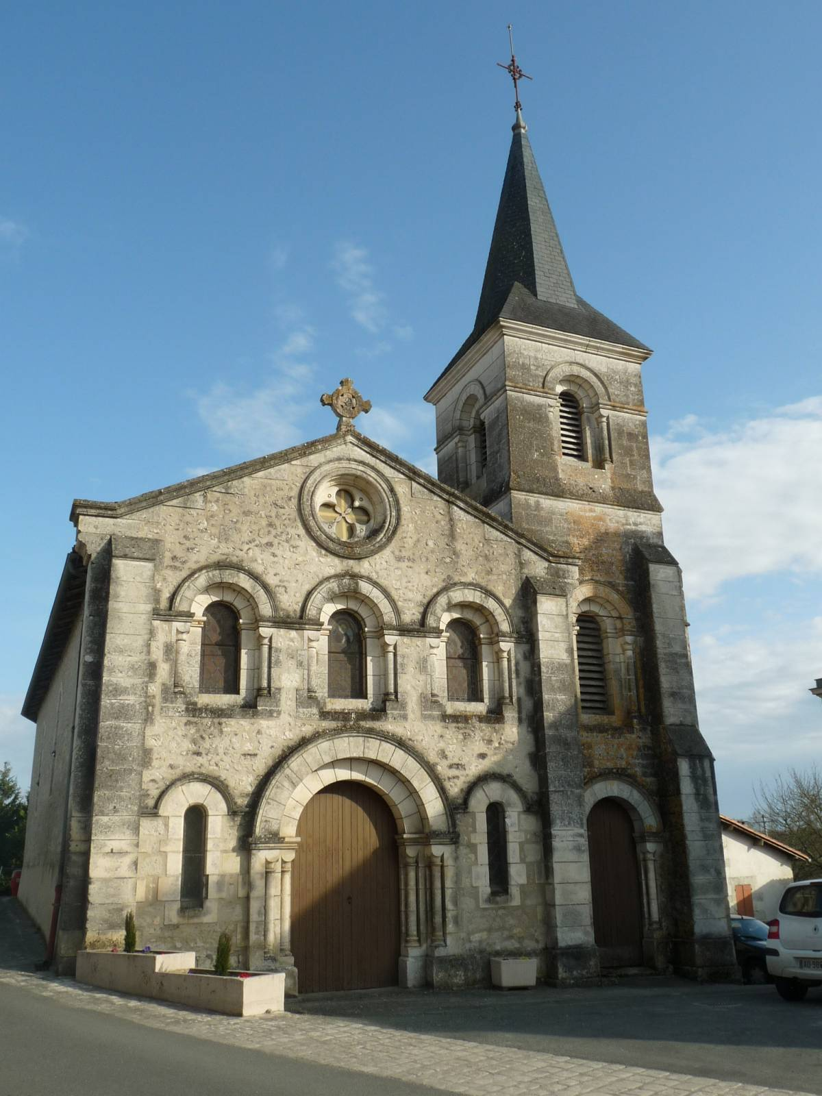 church of Laprade, Charente, SW France